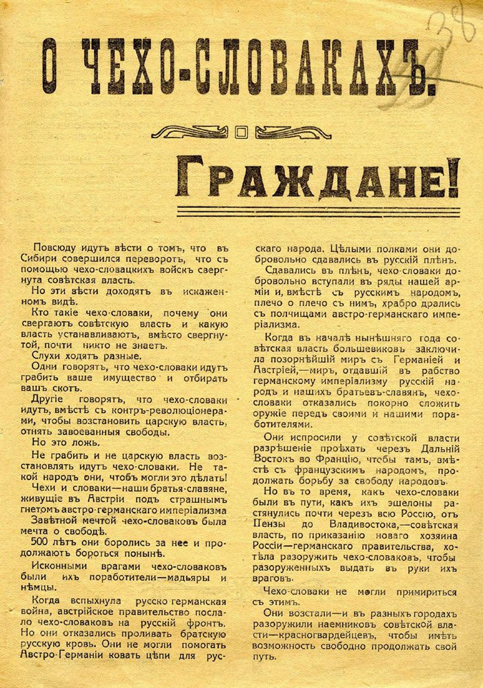 Czechoslovak Legion leaflet